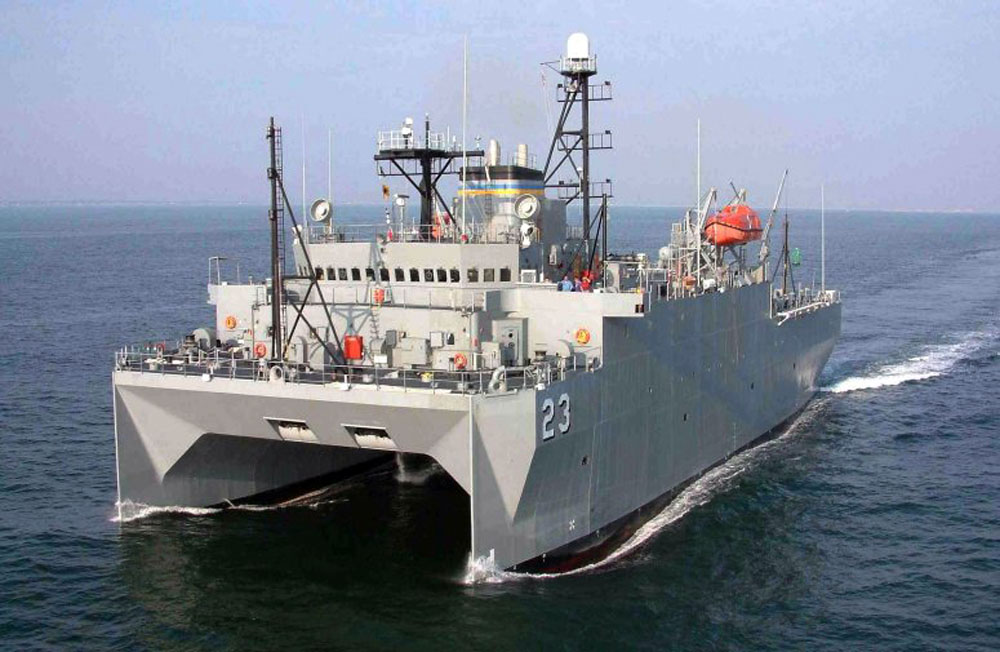 090309-N-0000X-001 WASHINGTON (March 9, 2009) The military Sealift Command ocean surveillance ship USNS Impeccable (T-AGOS-23) is one of five ocean surveillance ships that are part of the 25 ships in the Military Sealift Command Special Mission Ships Program. Impeccable directly supports the Navy by using both passive and active low frequency sonar arrays to detect and track undersea threats. (U.S. Navy Photo/Released)